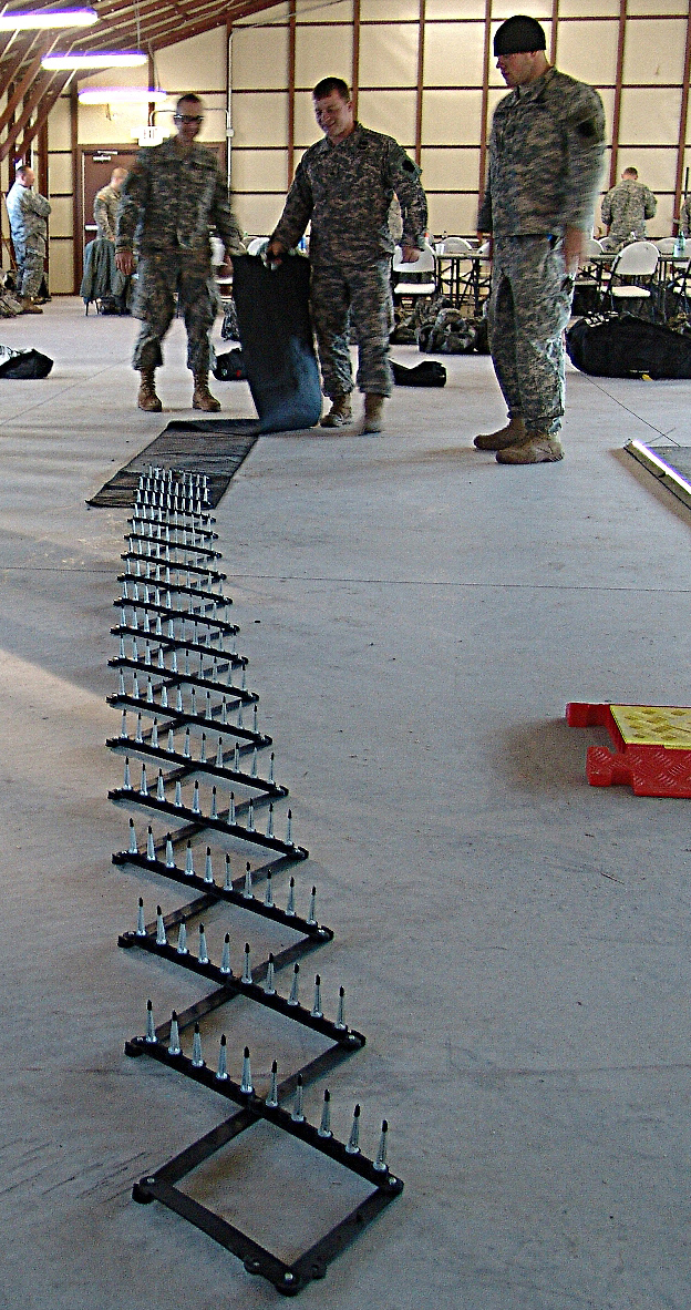 Members of the 56th Stryker Brigade Combat Team, 28th Infantry Division, practice laying out spike strips during non-lethal capability set training at Fort Dix, N.J.